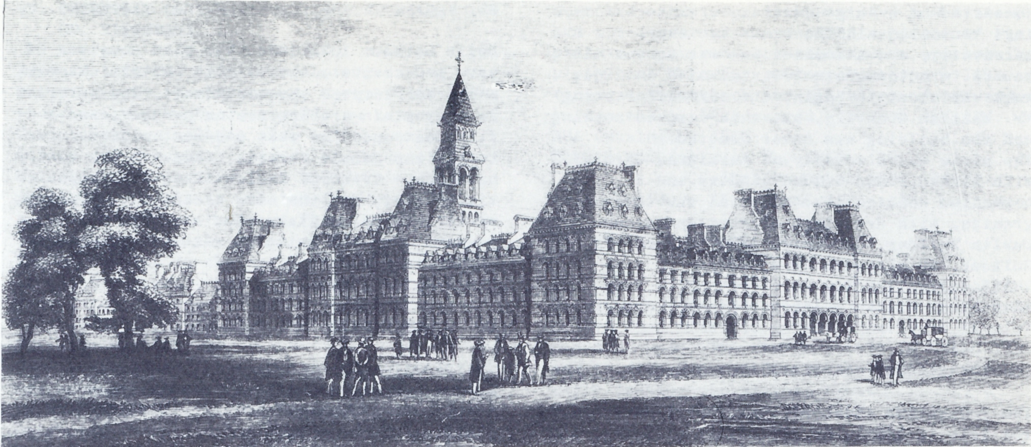 J. J. McCarthy designed a building for the Catholic University of Ireland of which he was a Professor of Architecture. A foundation stone was laid to this building in 1862 but it was never completed.